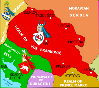 Realm of Vuk Branković.